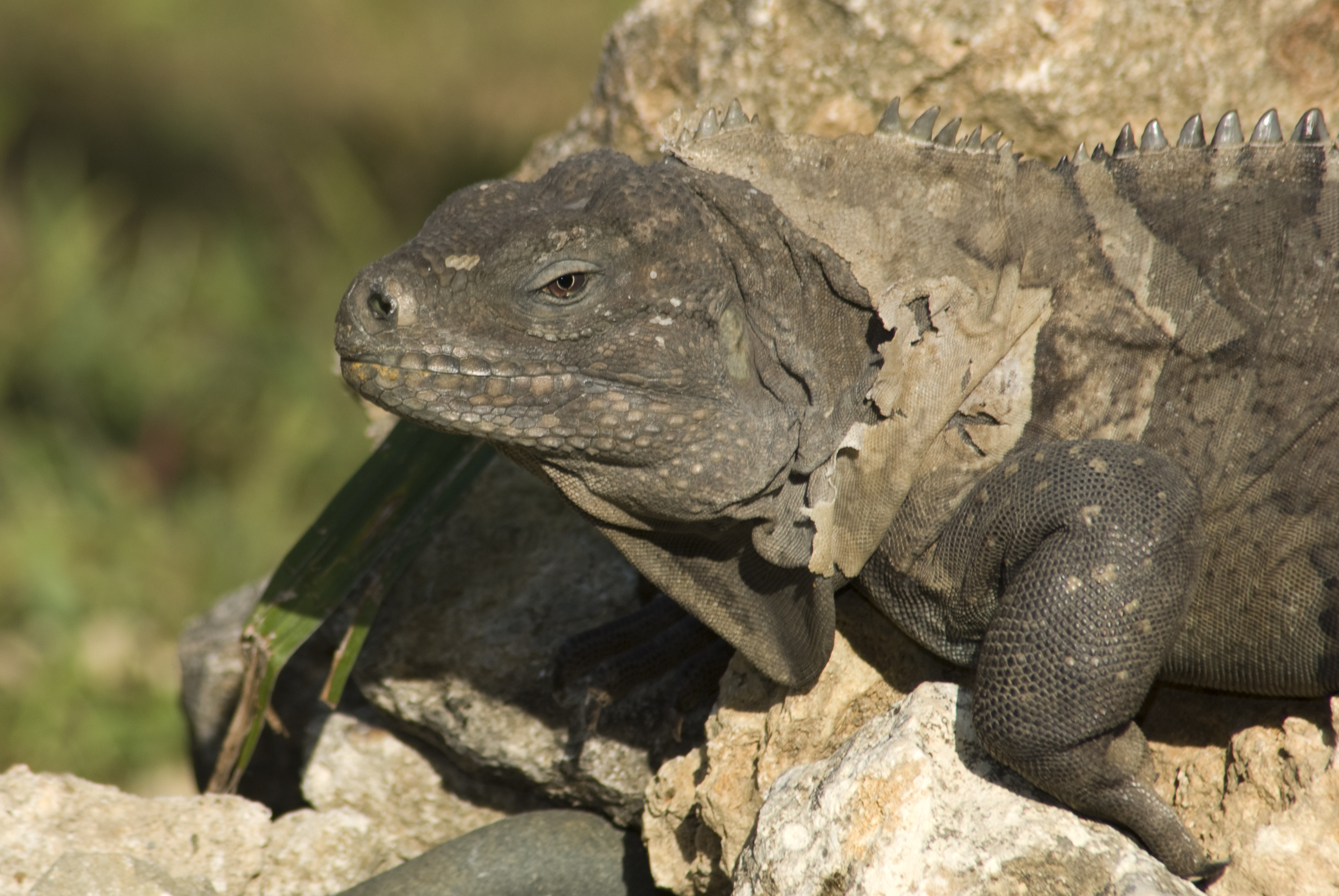 Cyclura ricordi close up